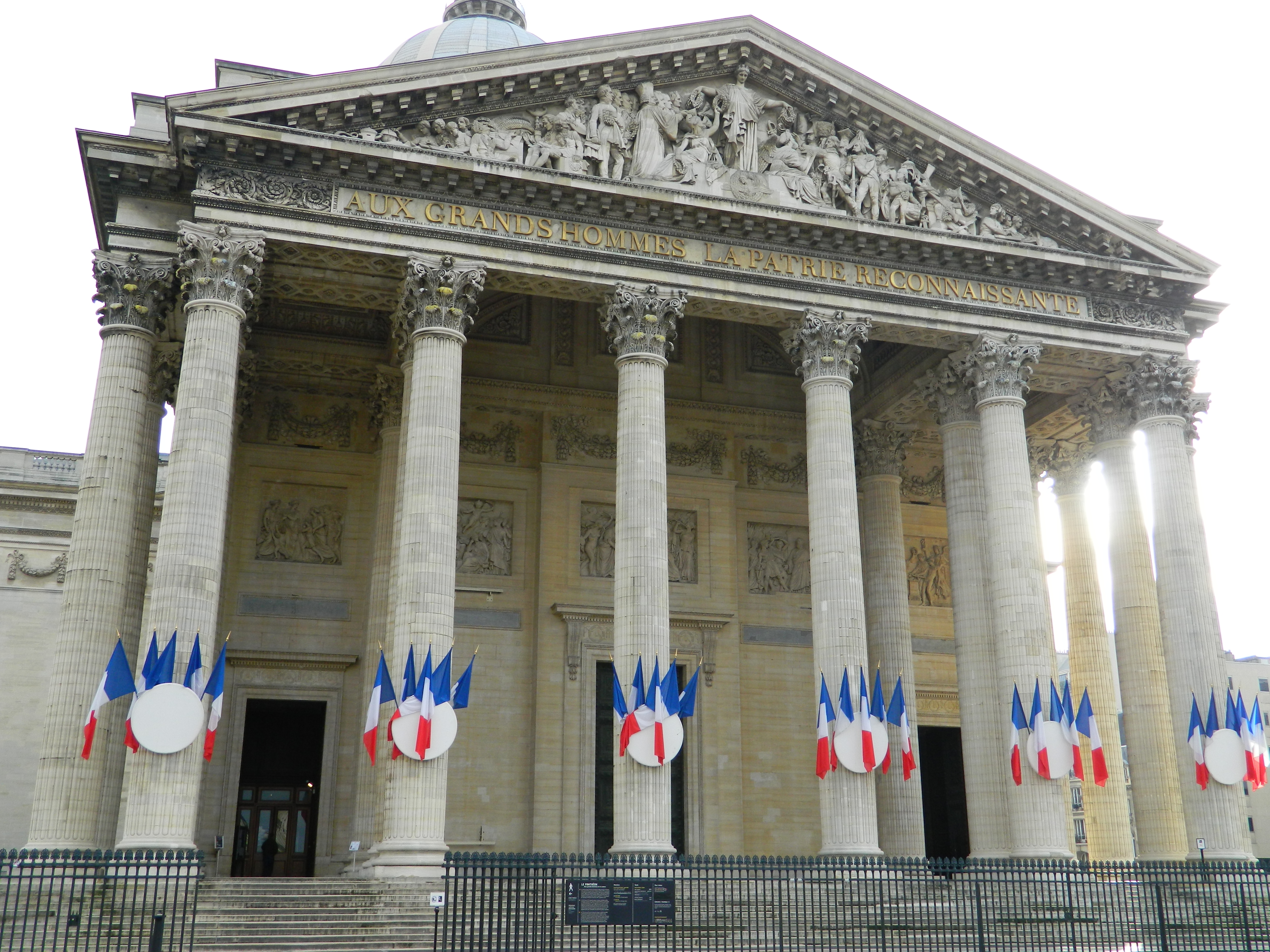 Pantheon Paris